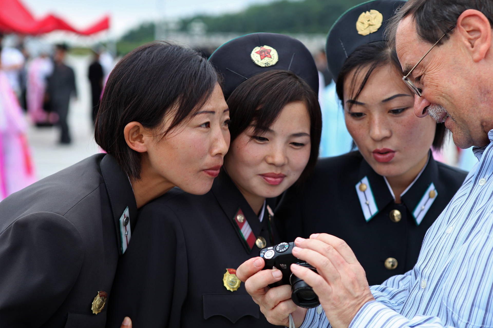 Locals are very happy to see themselves in the camera :)